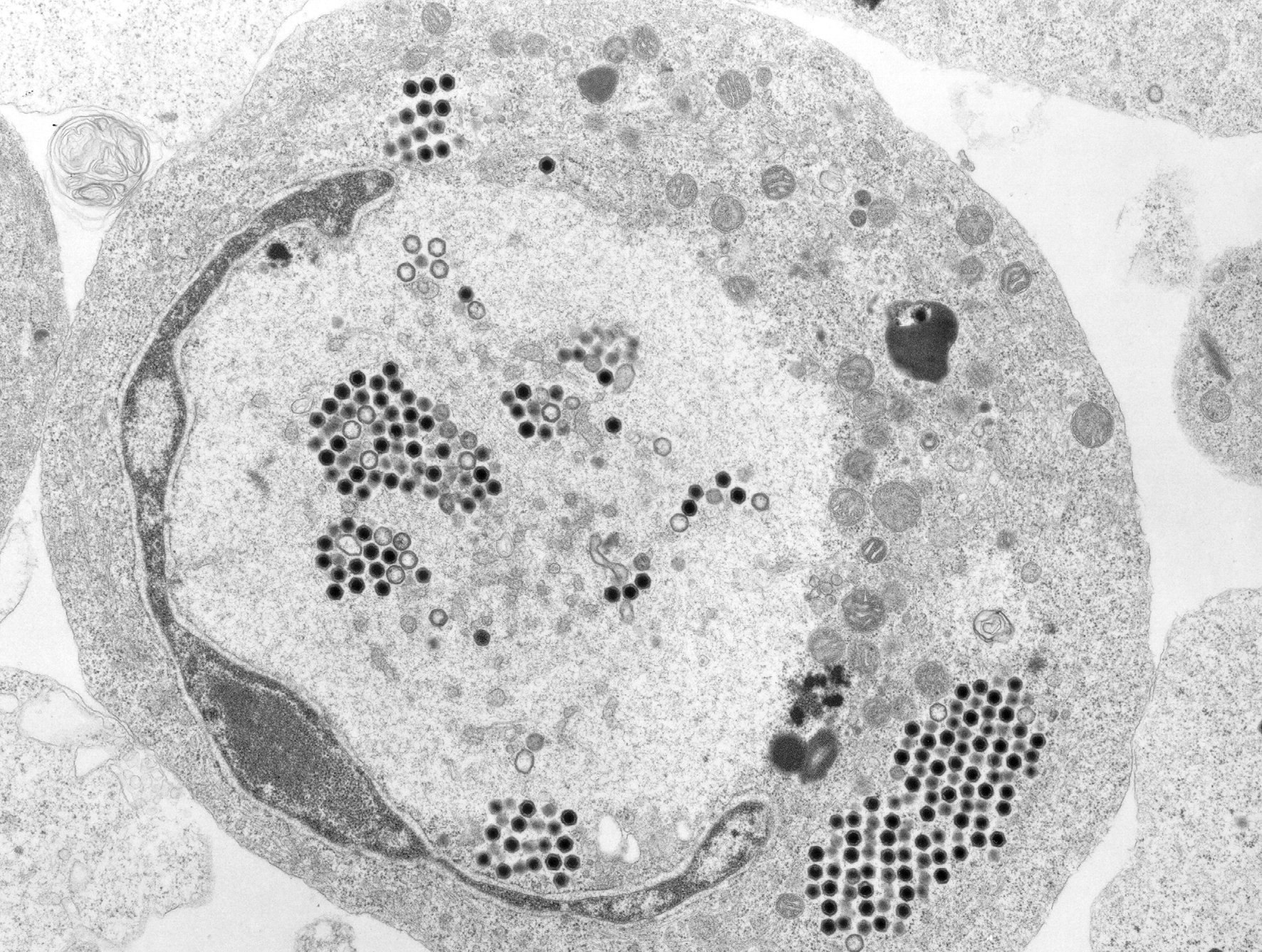 Ranaviruses are pathogens of fish, amphibians and reptiles. They are of concern to commercial freshwater fisheries and cause infections in frogs and toads around the world. A transmission electron micrograph of a cell infected with ranaviruses is shown here. The virus has aggregated in the cytoplasm and in the assembly bodies next to the contorted nucleus. Image produced by Electron Microscopy Unit, Australian Animal Health Laboratory.